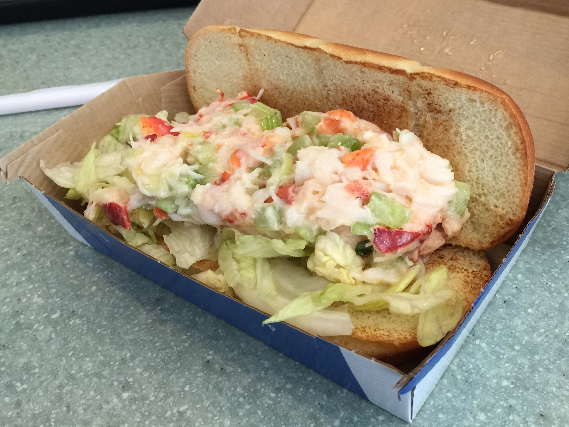 During a short-term promotion at Canadian McDonalds in the summer of 2015.